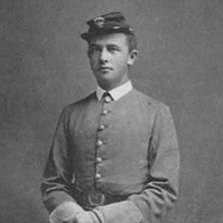 Matthias W. Day, Medal of Honor Winner during the Indian Wars in 1879. Cropped version downloaded from the source listed.